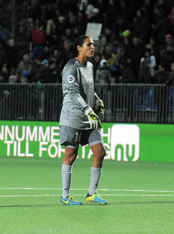 French goalkeeper Karima Benameur playing for PSG at Tyreso FF in an October 2013 UCWL last 32 clash.